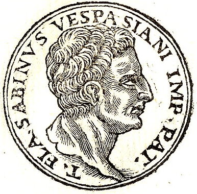 Titus Flavius Sabinus was the son of Titus Flavius Petro and father of Caesar Vespasianus.